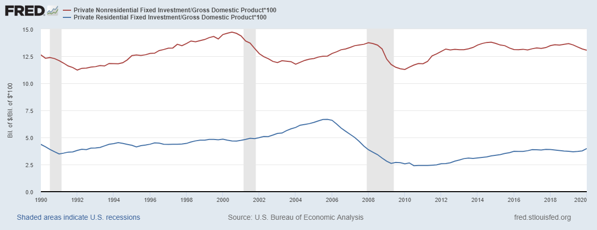 U.S. Fixed Investment as percent of GDP. The graph shows residential and non-residential fixed investment, two major components of GDP.